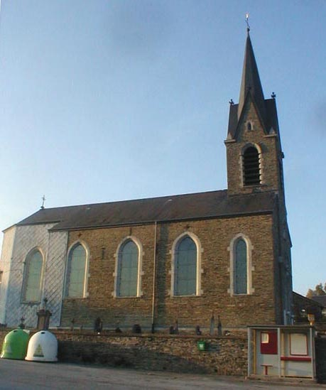 Church of Noirefontaine Walon: Eglijhe di Noere-Fontinne.